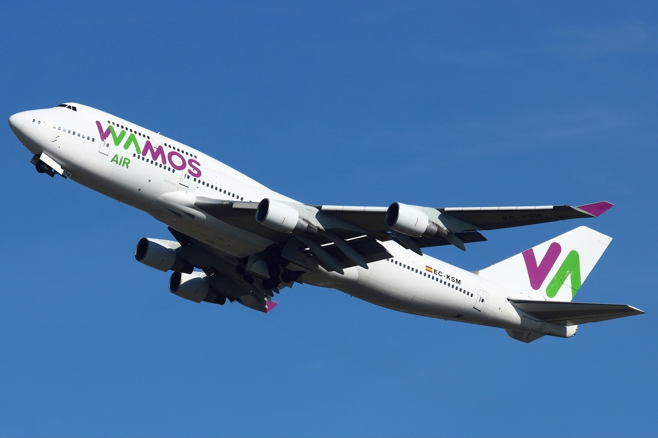 Wamos Air Boeing 747-400 (EC-KSM) takes off from Paris-Orly Airport